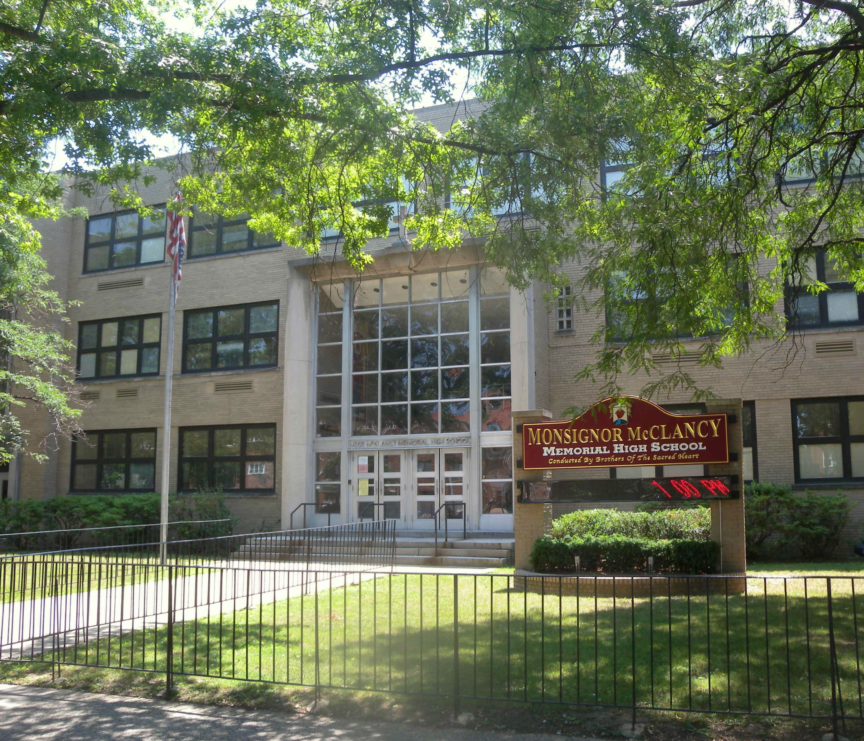 Looking southeast at McClancy High School on a sunny late morning.